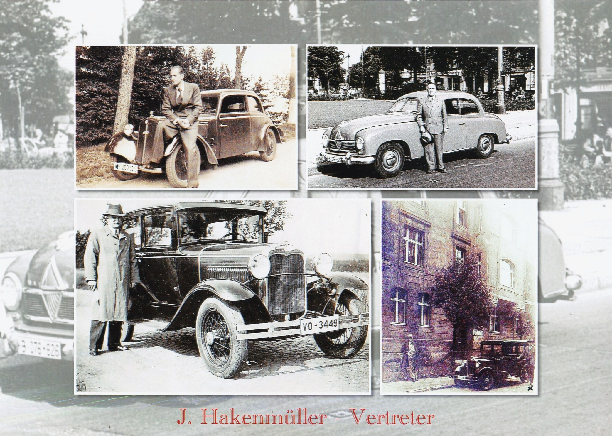 Since 1910 the 1887 in Western-Germany at the Suebian Alb founded textile-enterprise J.Hakenmüller maintained a broad network of representatives all over Germany - among them some with jewish religion - to better sell her best quality textiles.